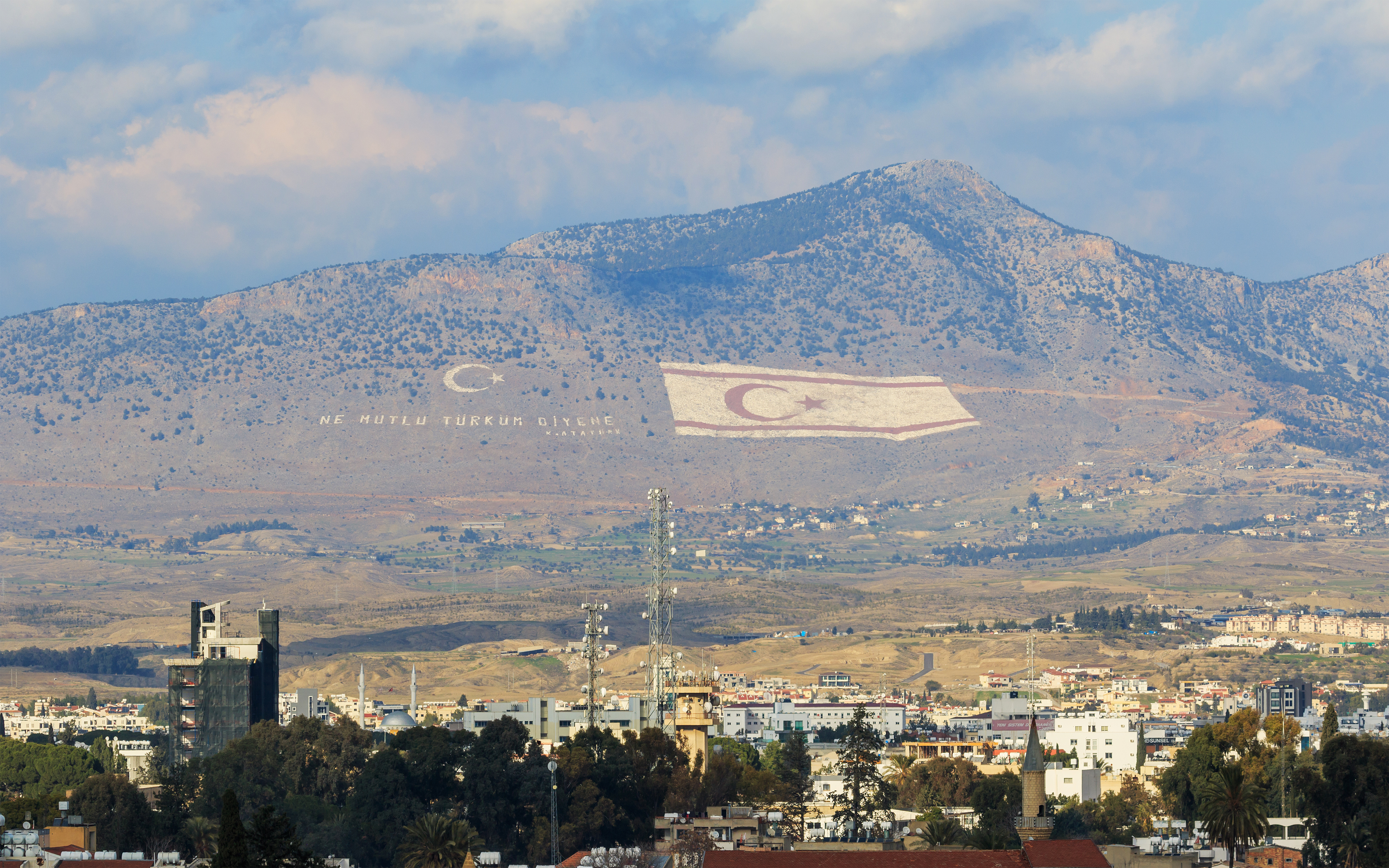 View from Shacolas Tower (Ledra Street Observatory) in Nicosia, Cyprus